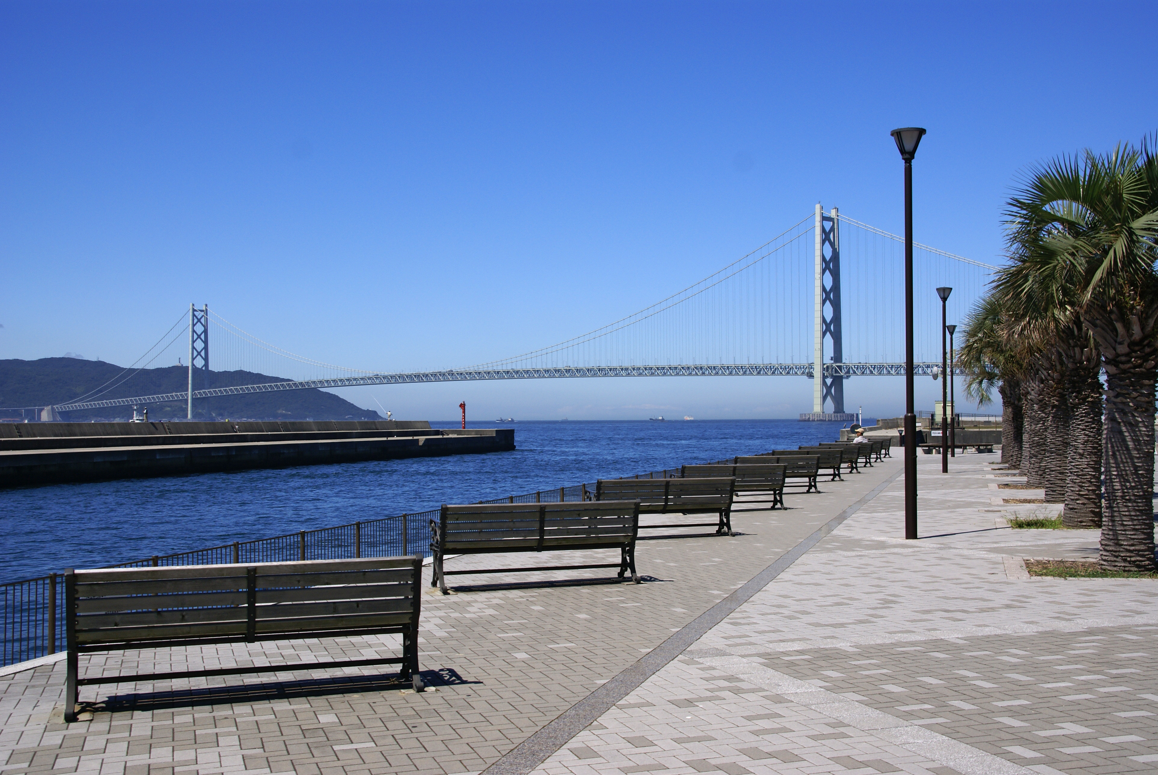 Marine pia Kobe in Kobe, Hyogo prefecture, Japan